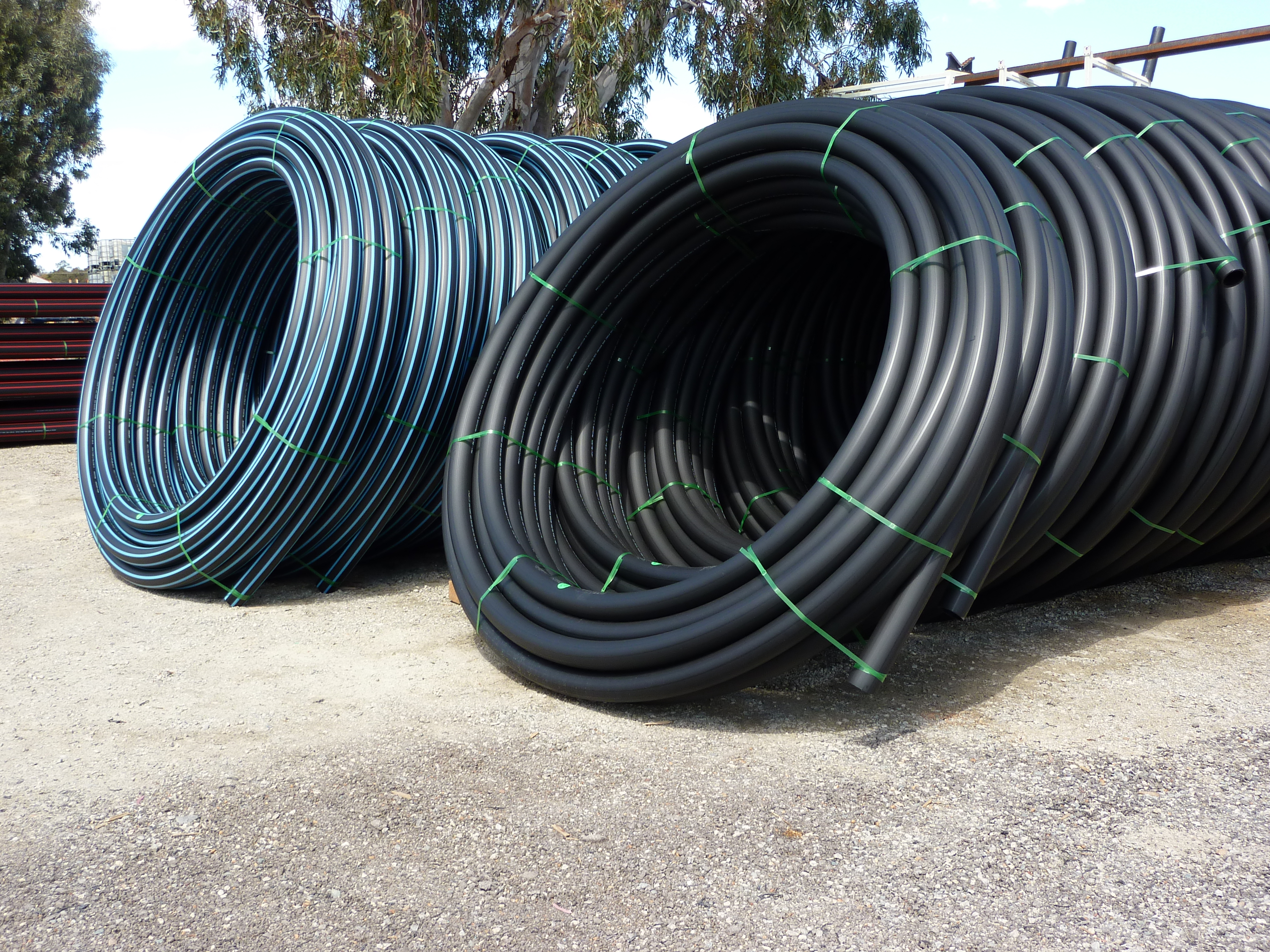 HDPE Pipe Coils for water and general fluid transfer.